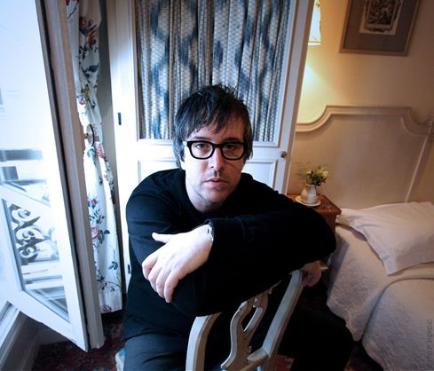 Dan Kennedy, photographed in Paris, 2009